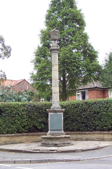 Victoria Memorial. Victoria Memorial, Saxby All Saints, North Lincolnshire.